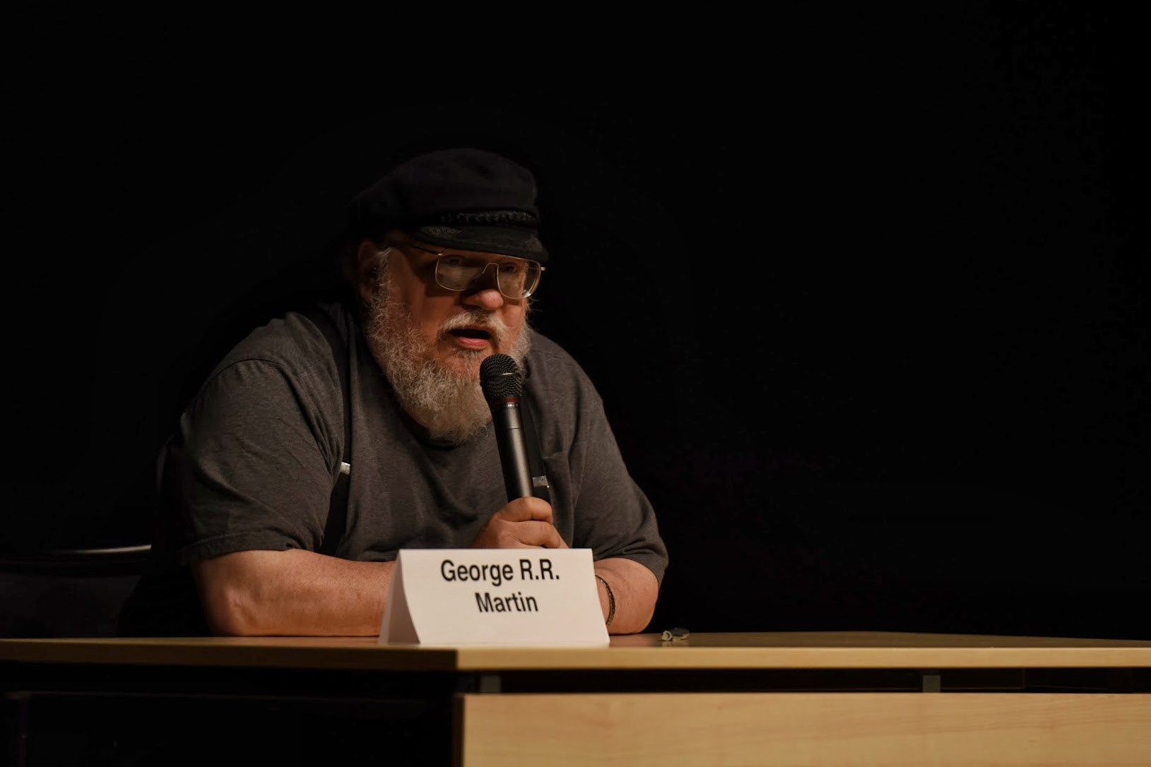 George R.R. Martin at Archipelacon.